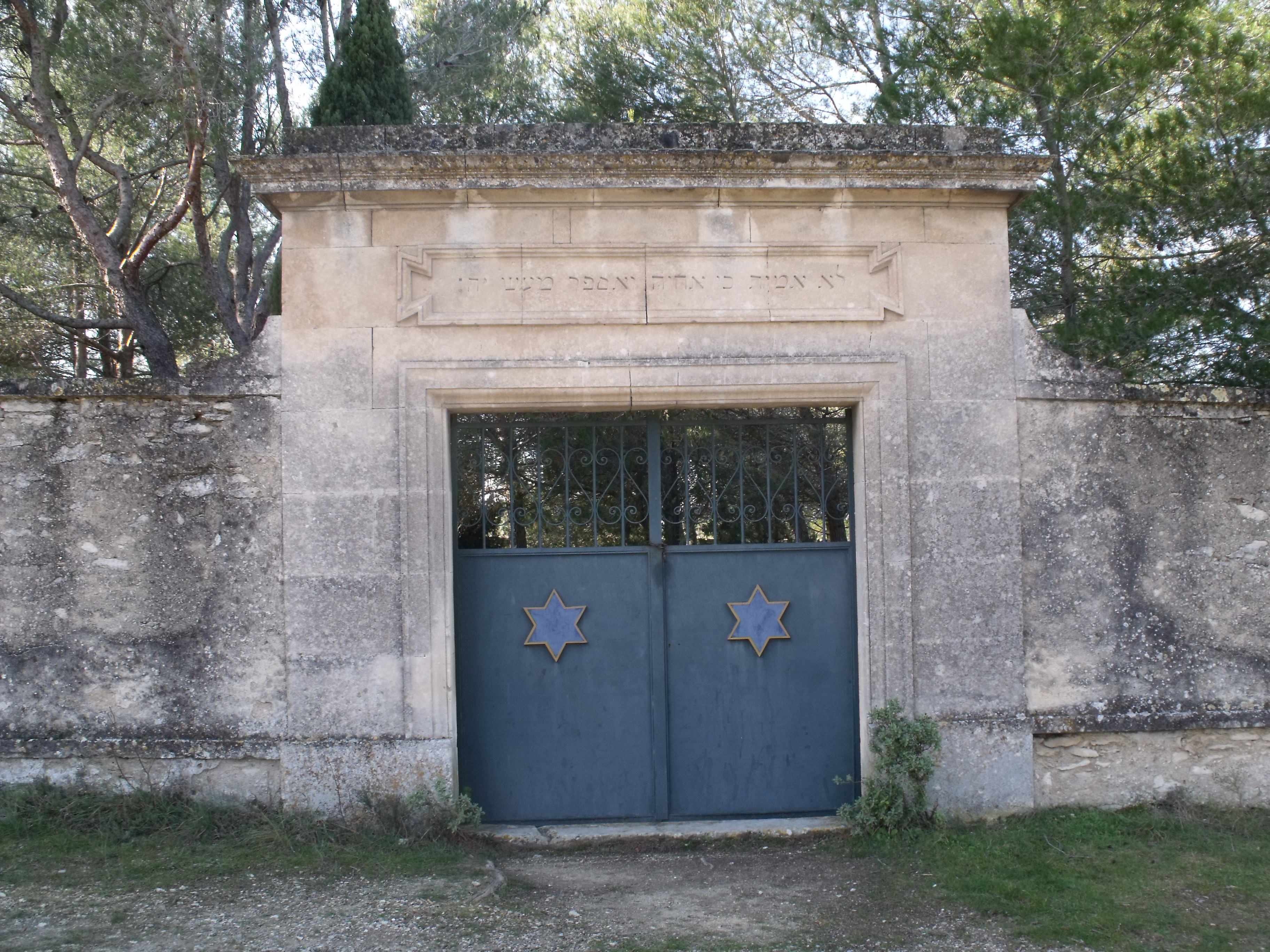 Hebrew writing : לֹא-אָמוּת כִּי-אֶחְיֶה וַאֲסַפֵּר מַעֲשֵׂי יָהּ I will not die, but live, And tell of the works of the LORD. (Psalms 118:17)